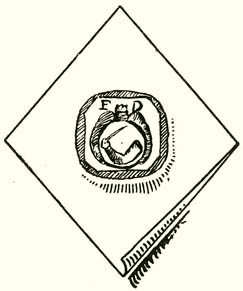 MAGYAR TÖRTÉNETI ÉLETRAJZOK MÁRKI SÁNDOR DÓSA GYÖRGY 1470-1514 A MAGYAR TUDOMÁNYOS AKADÉMIA SEGÉLYEZÉSÉVEL KIADJA A MAGYAR TÖRTÉNELMI TÁRSULAT SZERKESZTI DR. DÉZSI LAJOS BUDAPEST AZ ATHENAEUM R.-T. KÖNYVNYOMDÁJA 1913